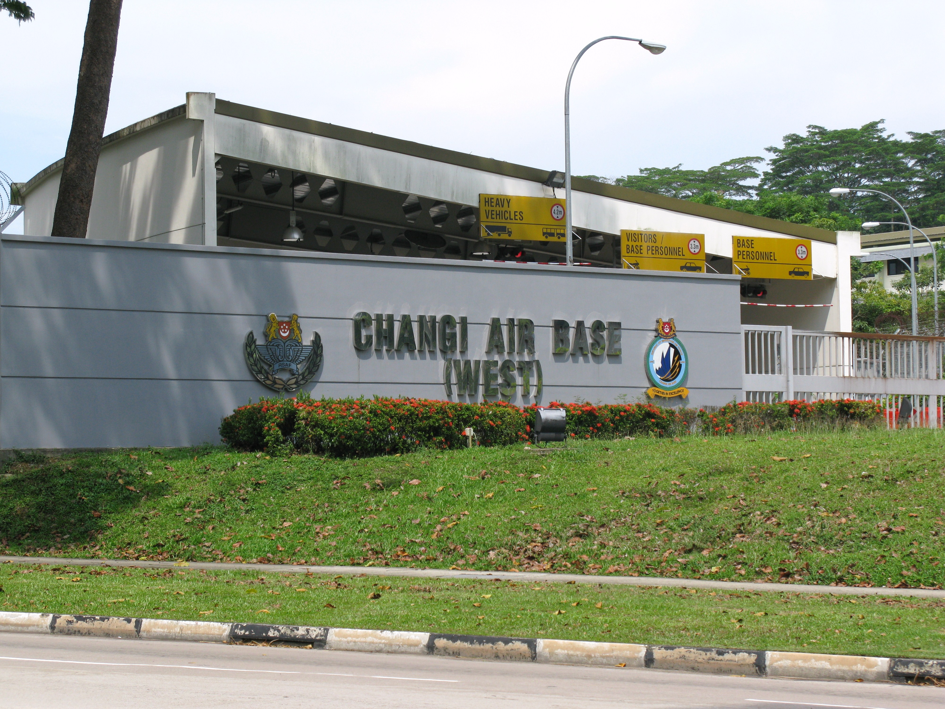 Entrance sign of Changi Air Base (West), which is occupied by HQ Changi Air Base.